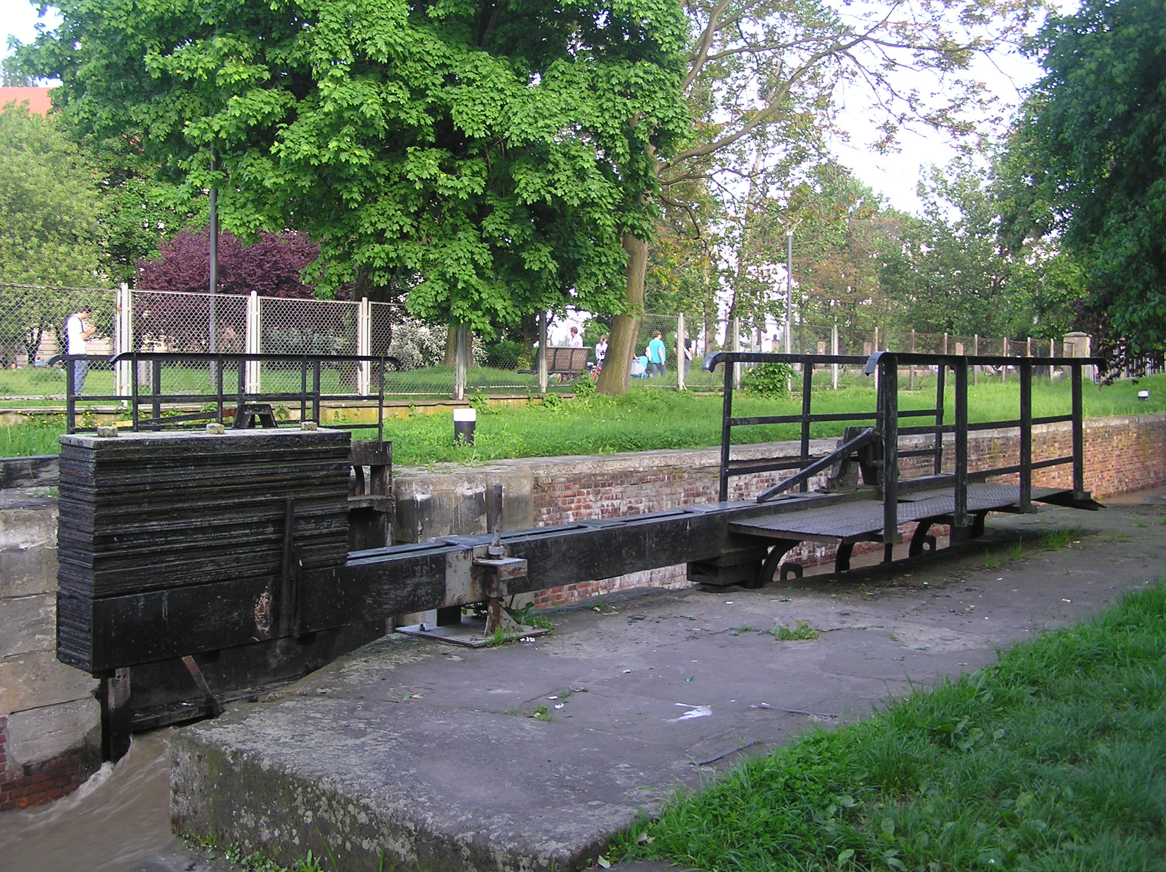 Wrocław, Piaskowa Lock